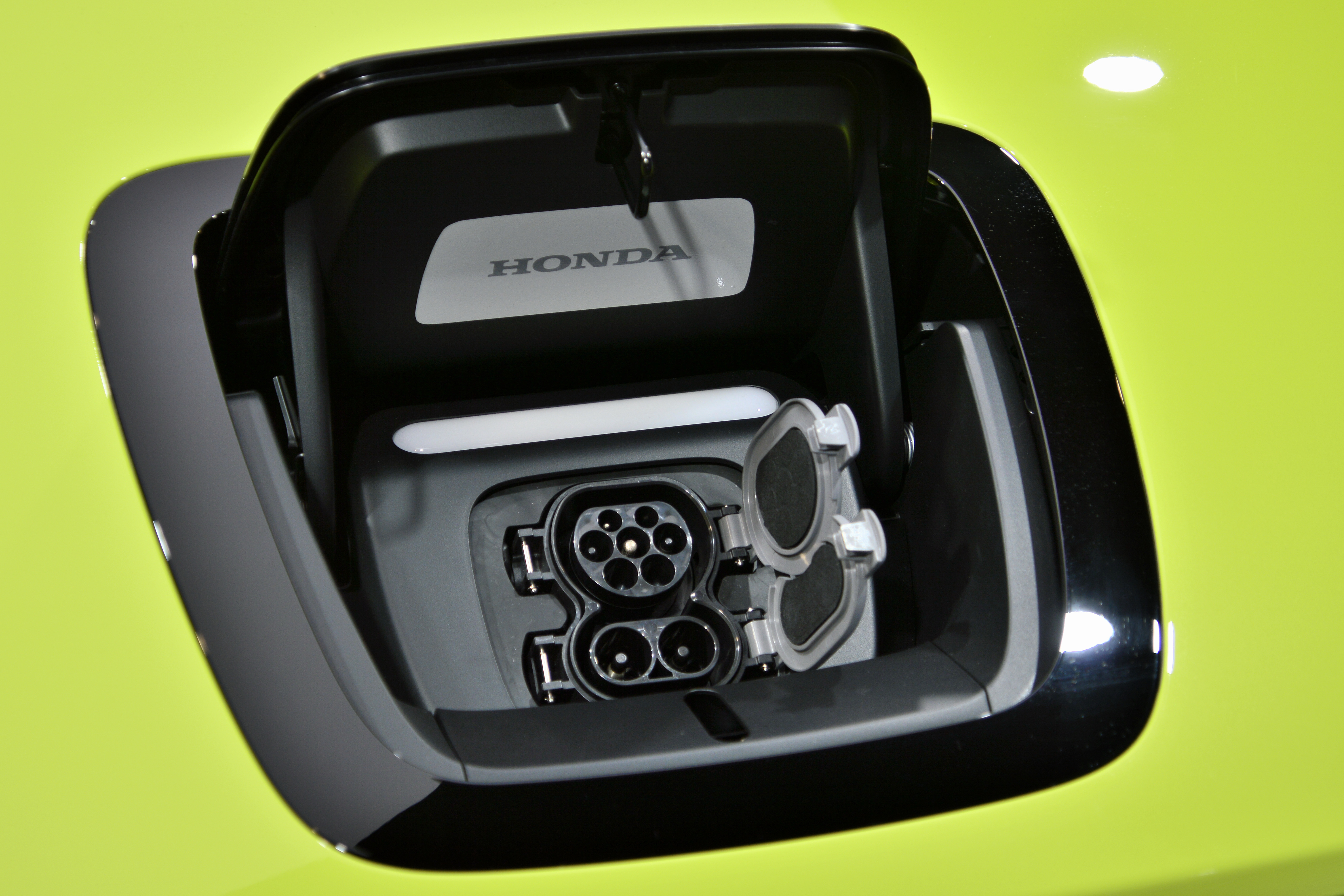 Charging interface of the electric car Honda e.